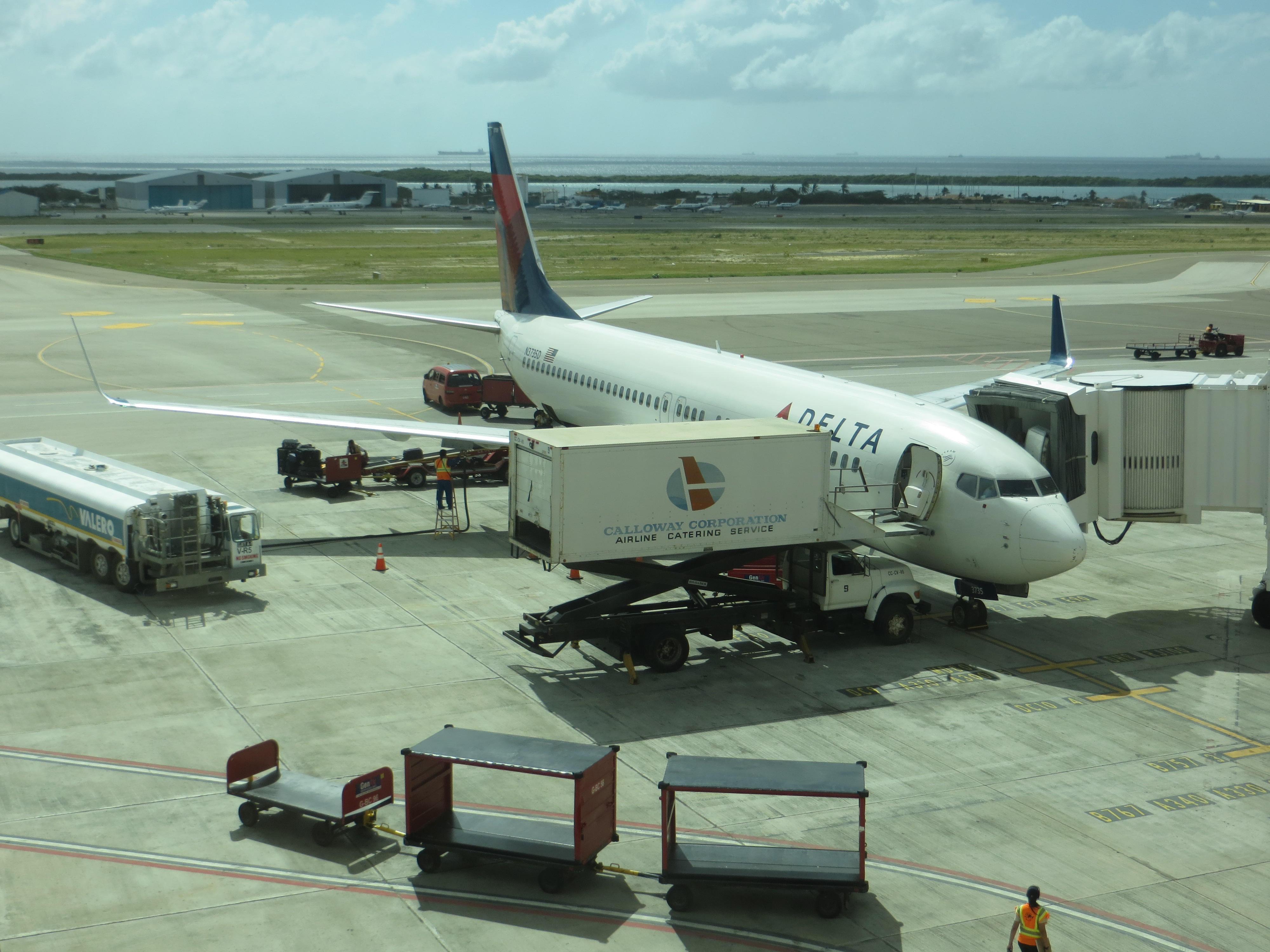 Delta #715 from Atlanta parked at gate 4.